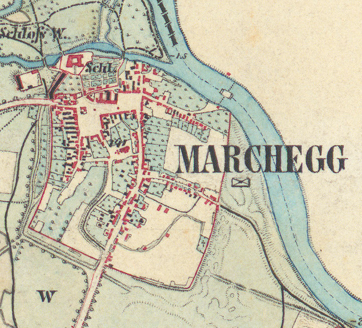 Marchegg. Franziszeische Landesaufnahme 2nd Military Survey c1835